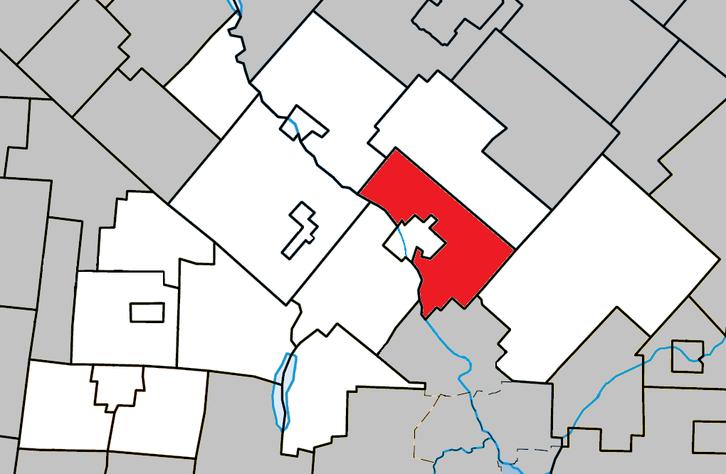 Location of Val-Joli, Quebec within Le Val-Saint-François Regional County Municipality.